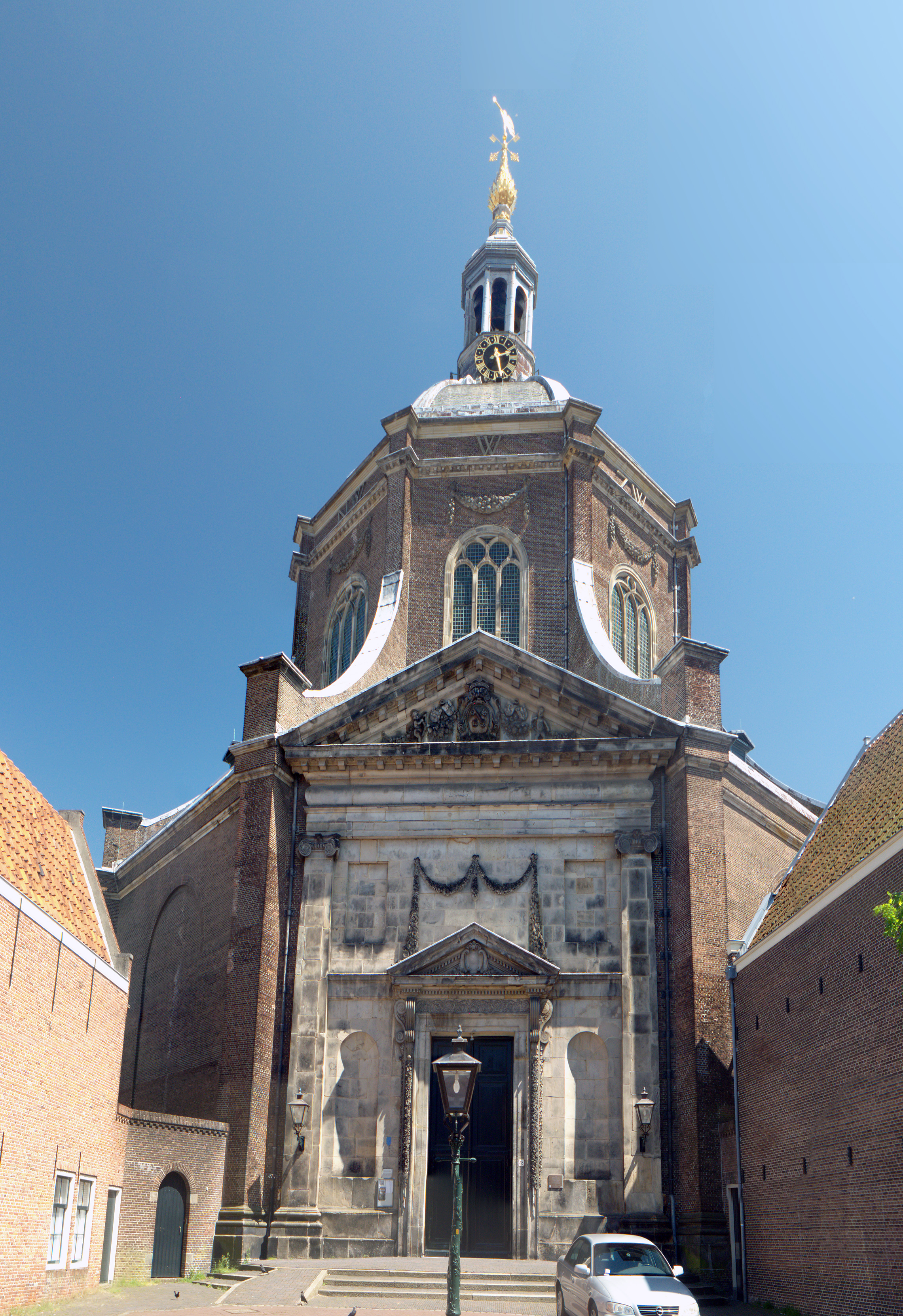 Leiden, Marekerk